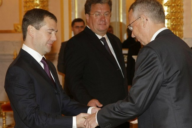 THE KREMLIN, MOSCOW. Presentation by foreign ambassadors of their letters of credence. Dmitry Medvedev receives a letter of credence from New Zealand Ambassador Ian Alexander Hill.